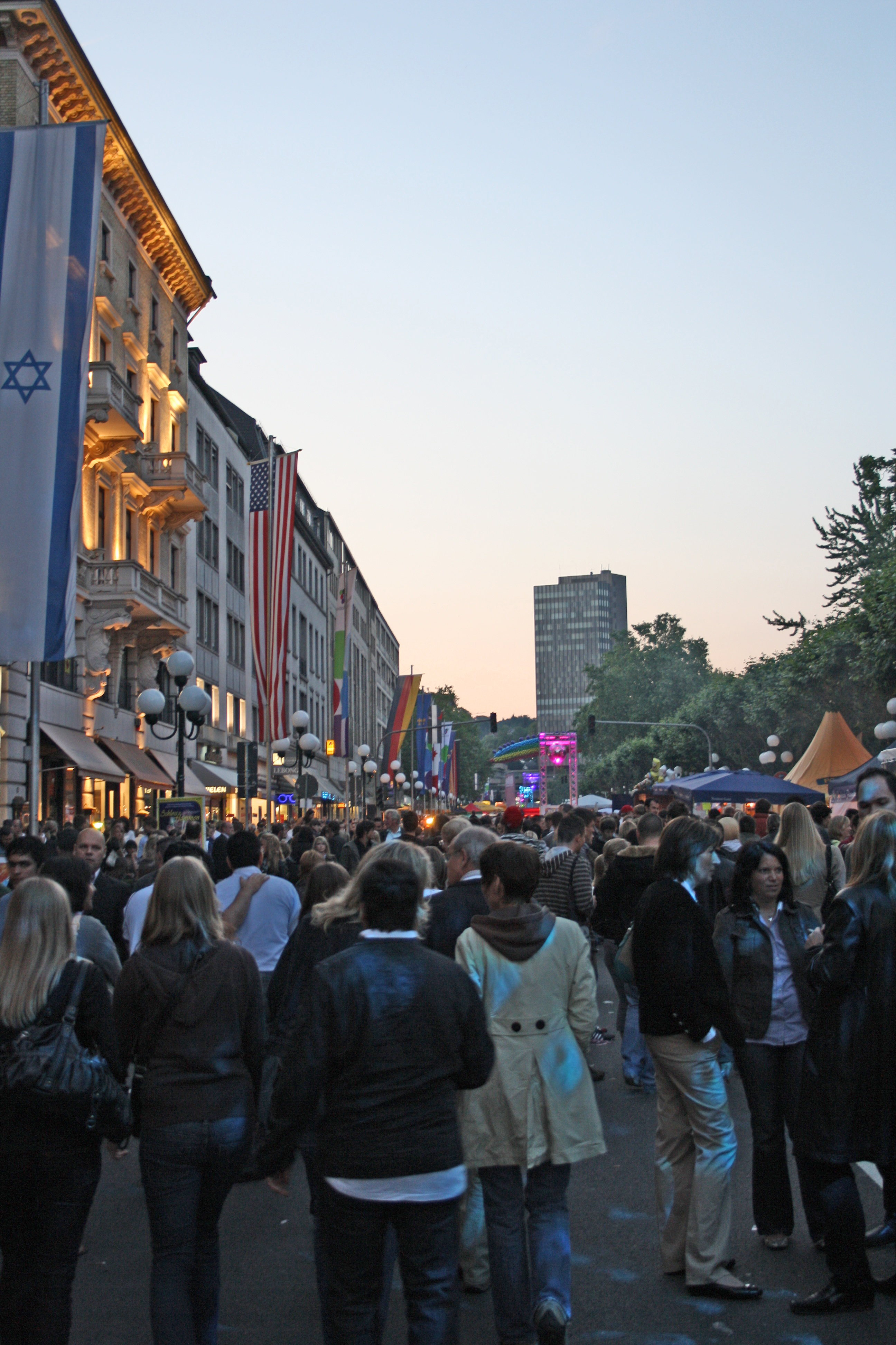 Wilhelmstraßenfest